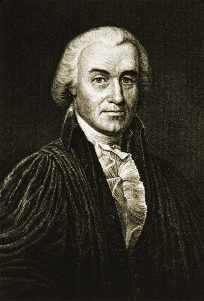 Oliver Ellsworth, Chief Justice of the United States. Engraving.